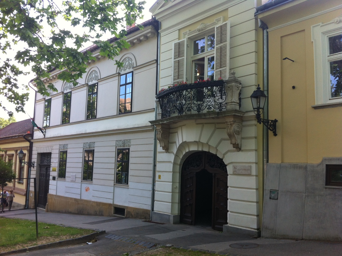 House of Civil Communities, Pécs, Hungary